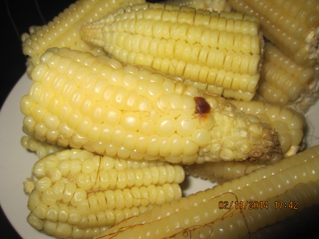 Green maize, known as 'Dowe' can be served as a main meal in some parts of Malawi, especially during maize season. Apart from being cooked, it can be roasted as well, or fried when it is sun dried. This is an image of food from Malawi